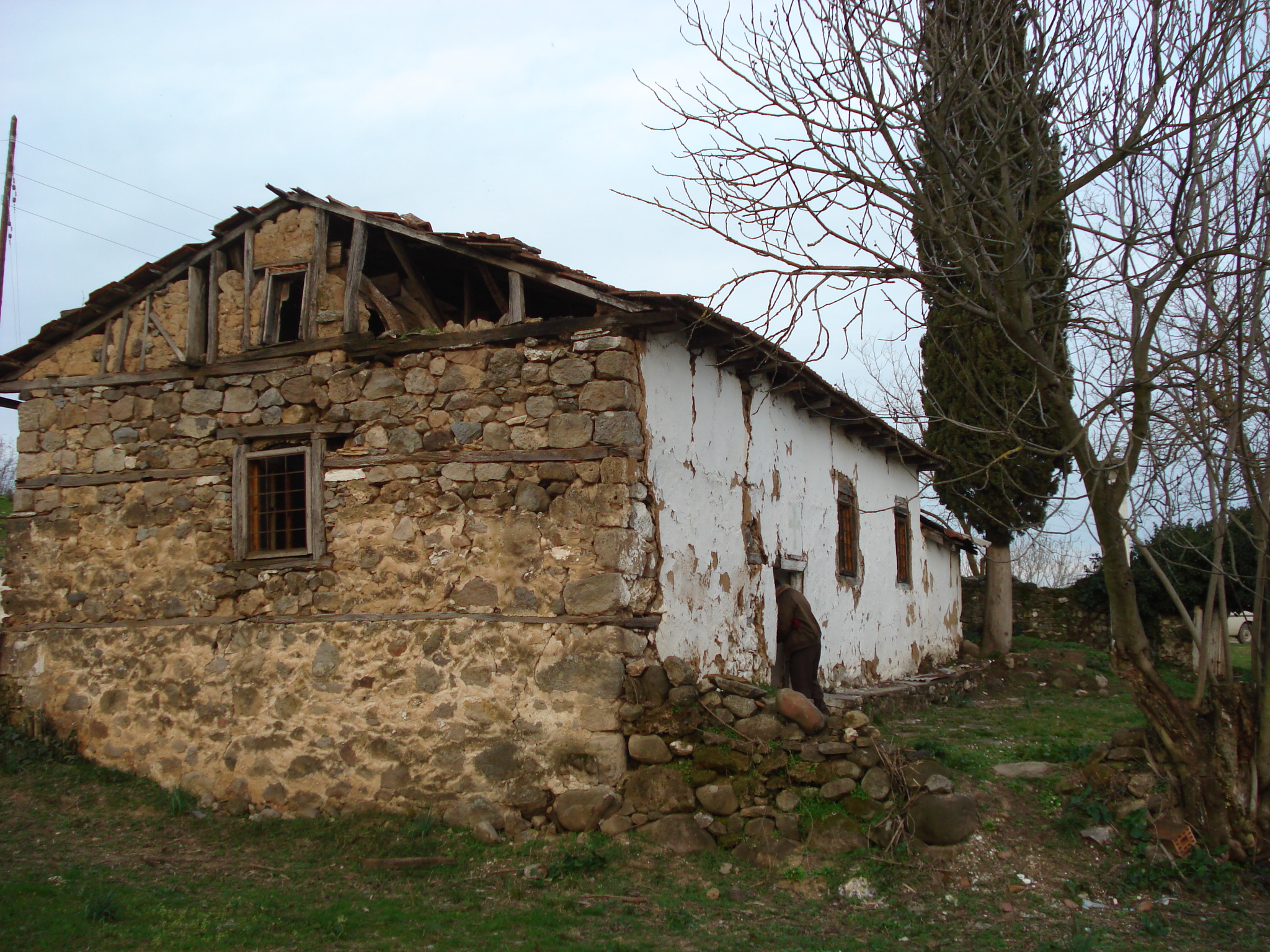 The Greek Orthodox (Byzantine) country Church Agios Georgios (Saint George) in Loutrochori, Skydra Municipality, Pella Prefecture, Macedonia, Greece.